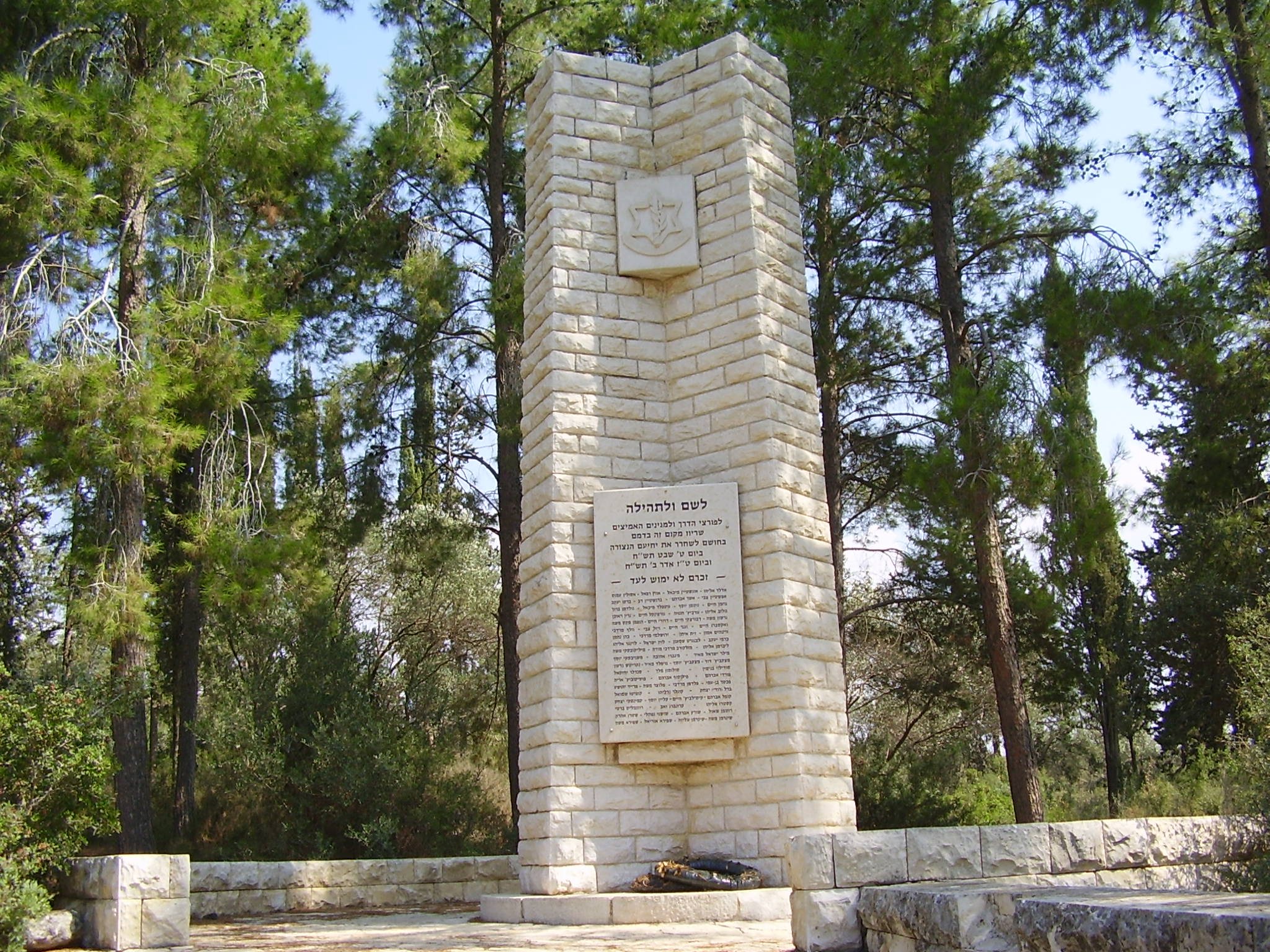 yechiam convoy memorial